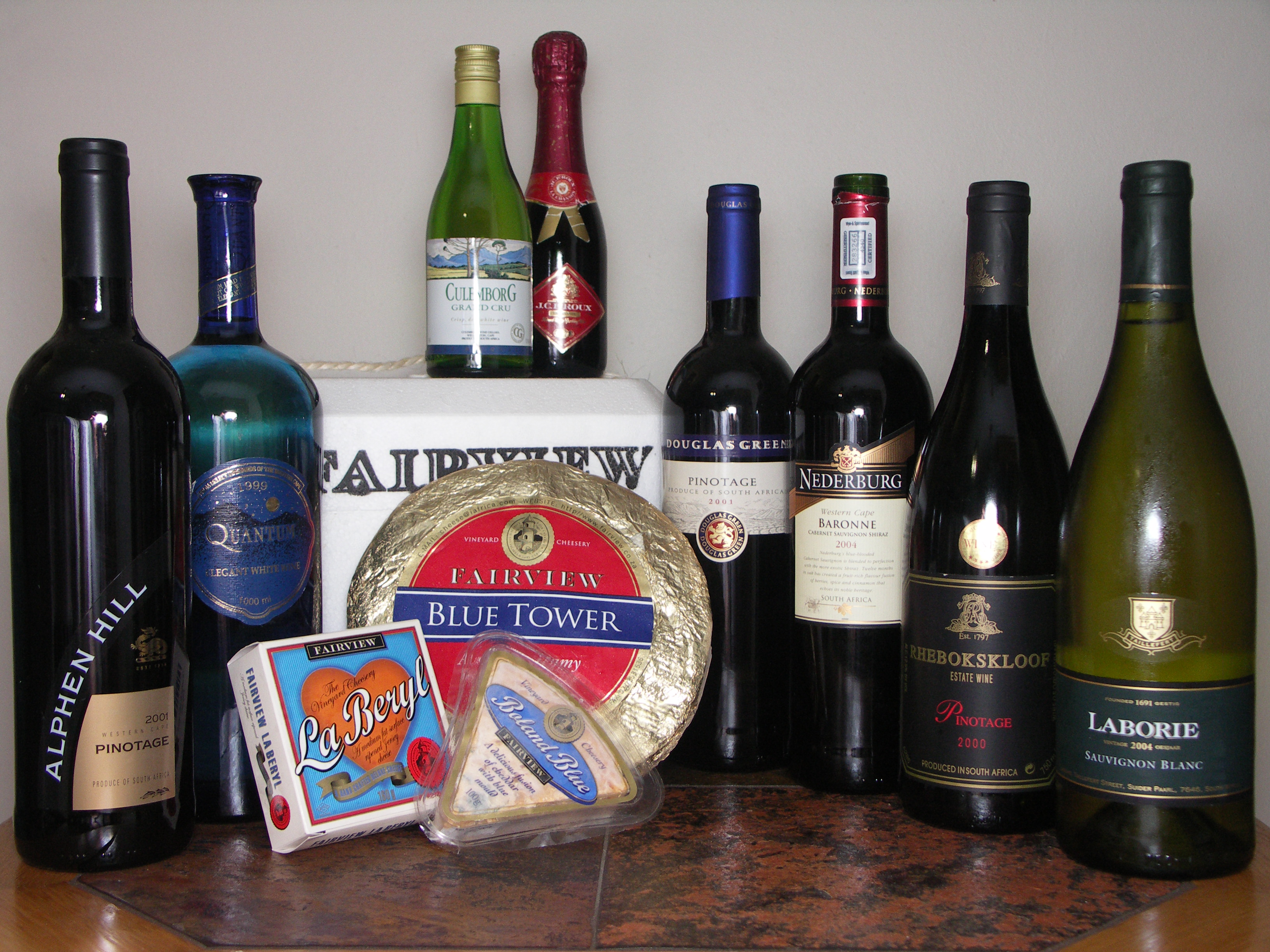 A collection of South African wines and cheese